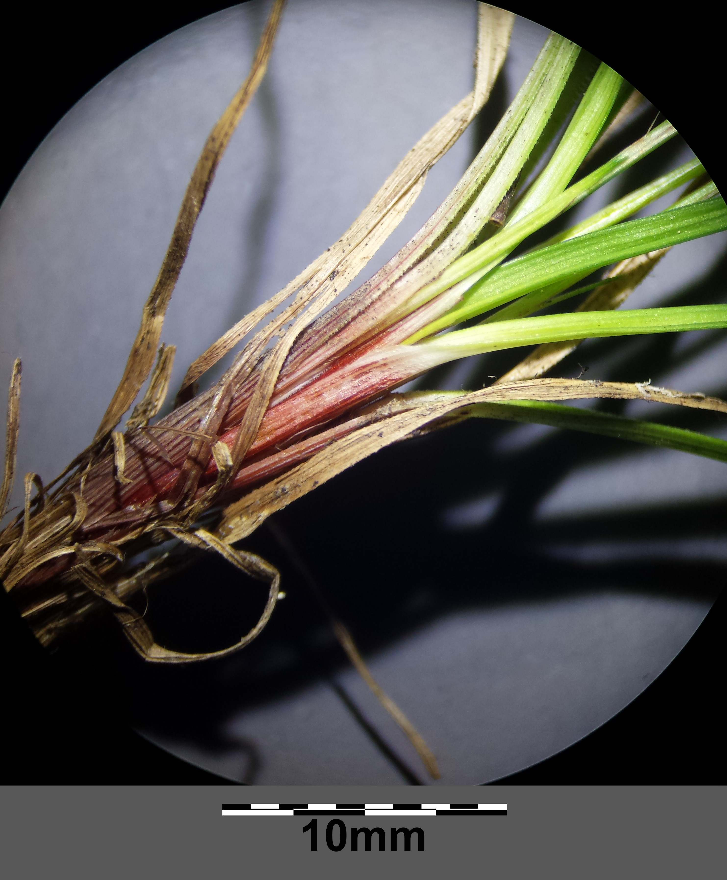 Base of stems with lowest leaf sheaths Taxonym: Carex ornithopoda subsp. ornithopoda ss Fischer et al. EfÖLS 2008 ISBN 978-3-85474-187-9 Location: Kalte Stube near Puch, district Hollabrunn, Lower Austria - ca. 350 m a.s.l. Habitat: semi-dry grassland